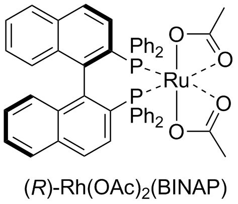 Ru chiral catalyst